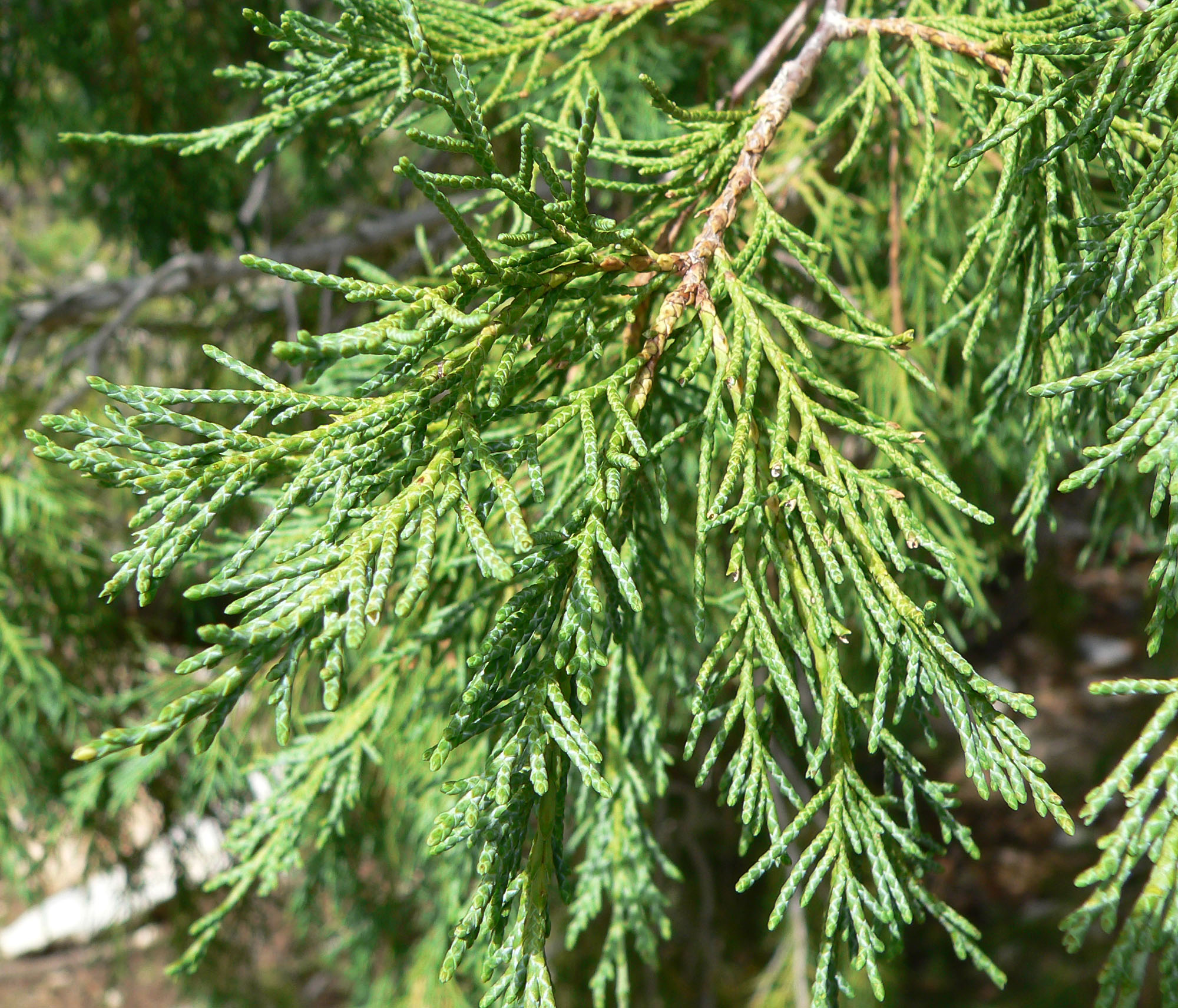 Juniperus scopulorum near the North Loop trail, Spring Mountains, southern Nevada (elev. about 2600 m)